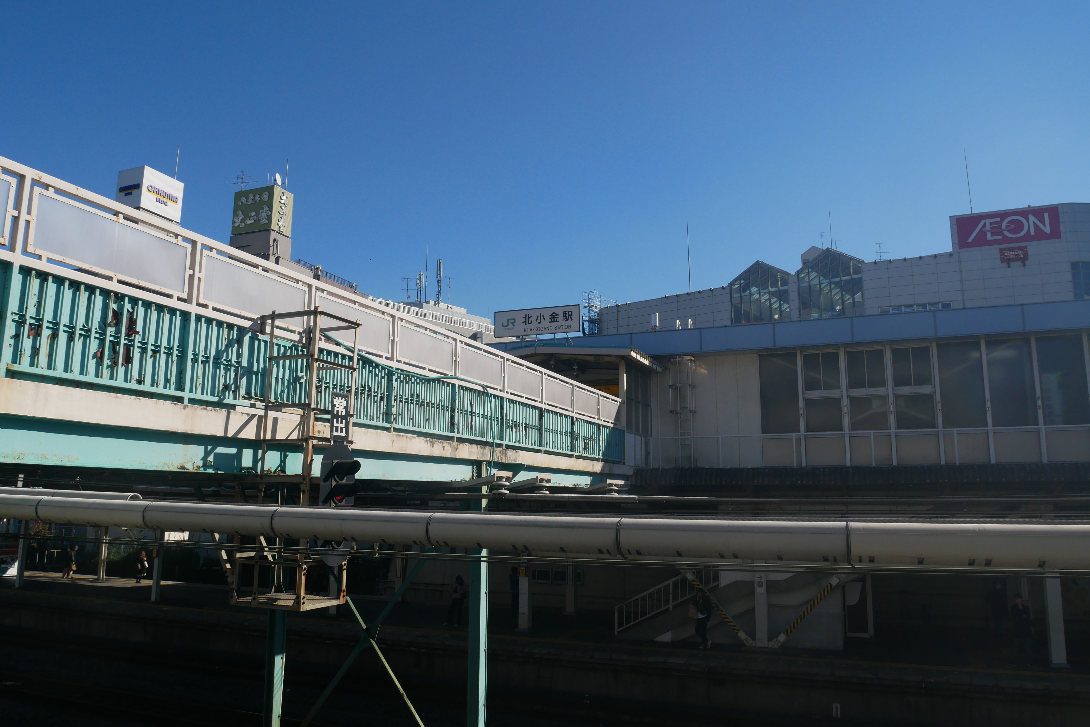 北小金駅の北口 (Kita-Kogane Station north exit) Panasonic Lumix DMC-GX7 Mark II